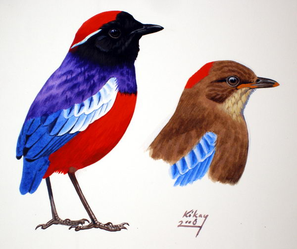 The Garnet Pitta, Pitta granatina, is a species of bird in the Pittidae family. It is found in Brunei, Indonesia, Malaysia, Myanmar, Singapore, and Thailand.